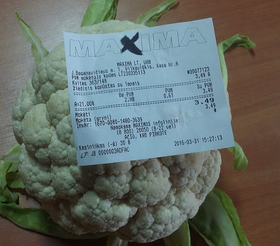 Cauliflower price in Lithuania, Maxima shopping centre